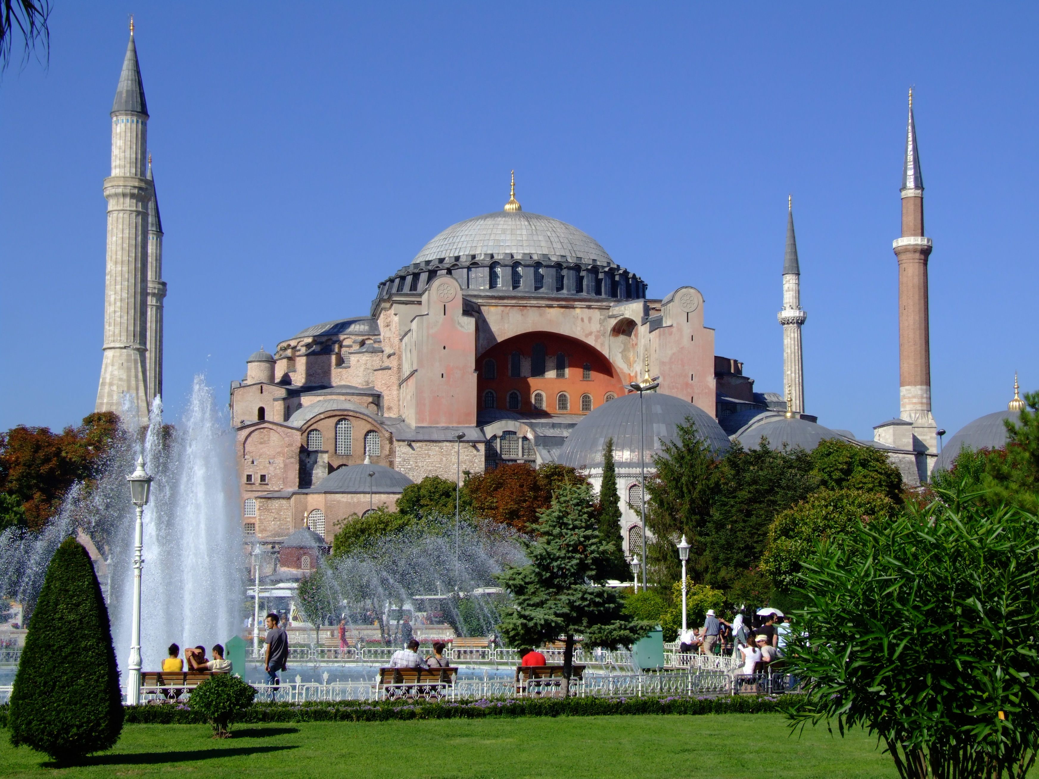 Without doubt the most impressive sight in Istanbul, as far as I am concerned